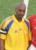 Kurt Ramsey in 2007 with North York Astros.